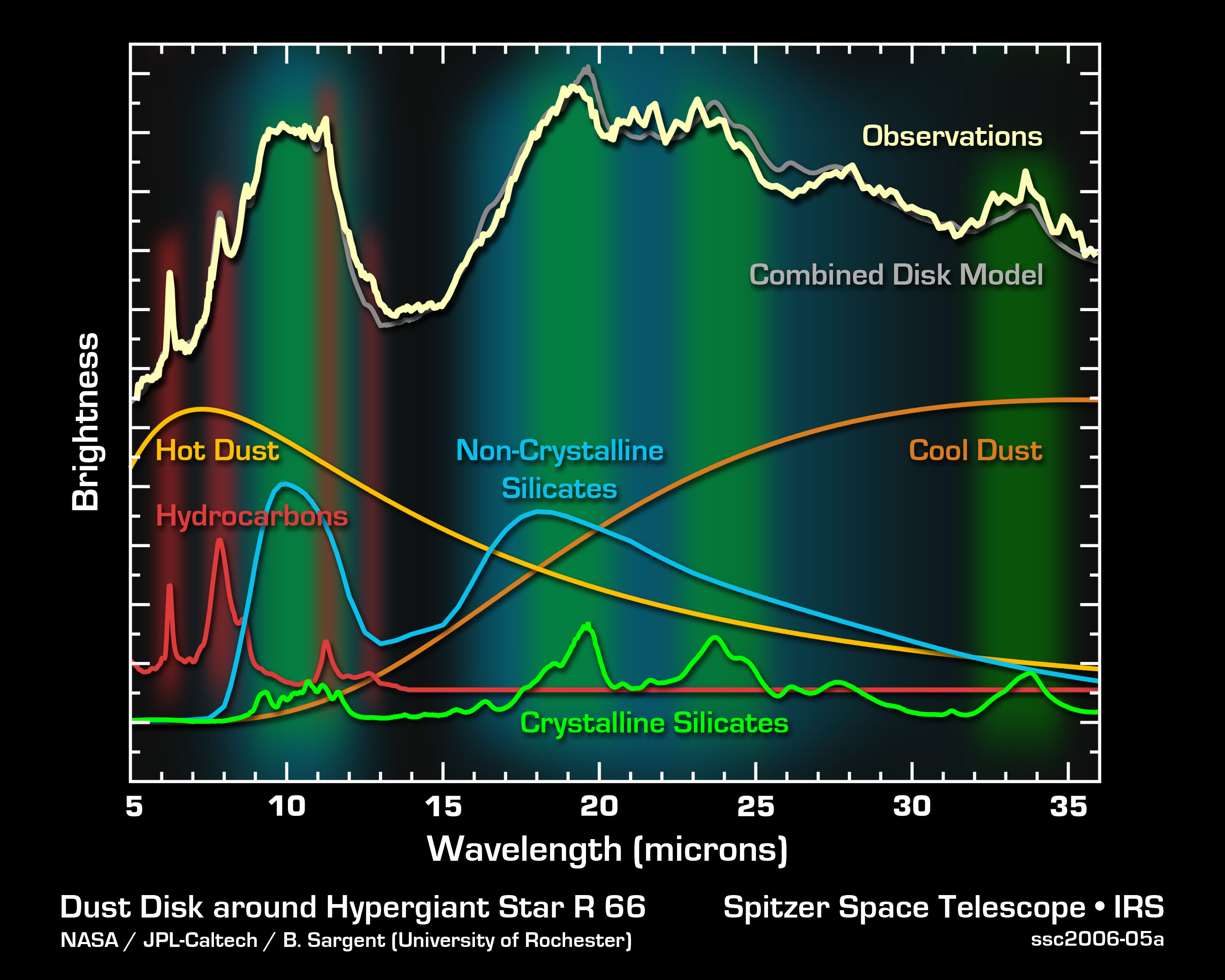 Stars R 66 and R 126 with huge dust discs.